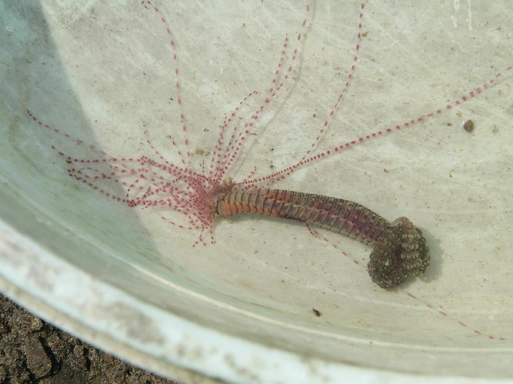 Loimia verrucosa (Terebellidae)